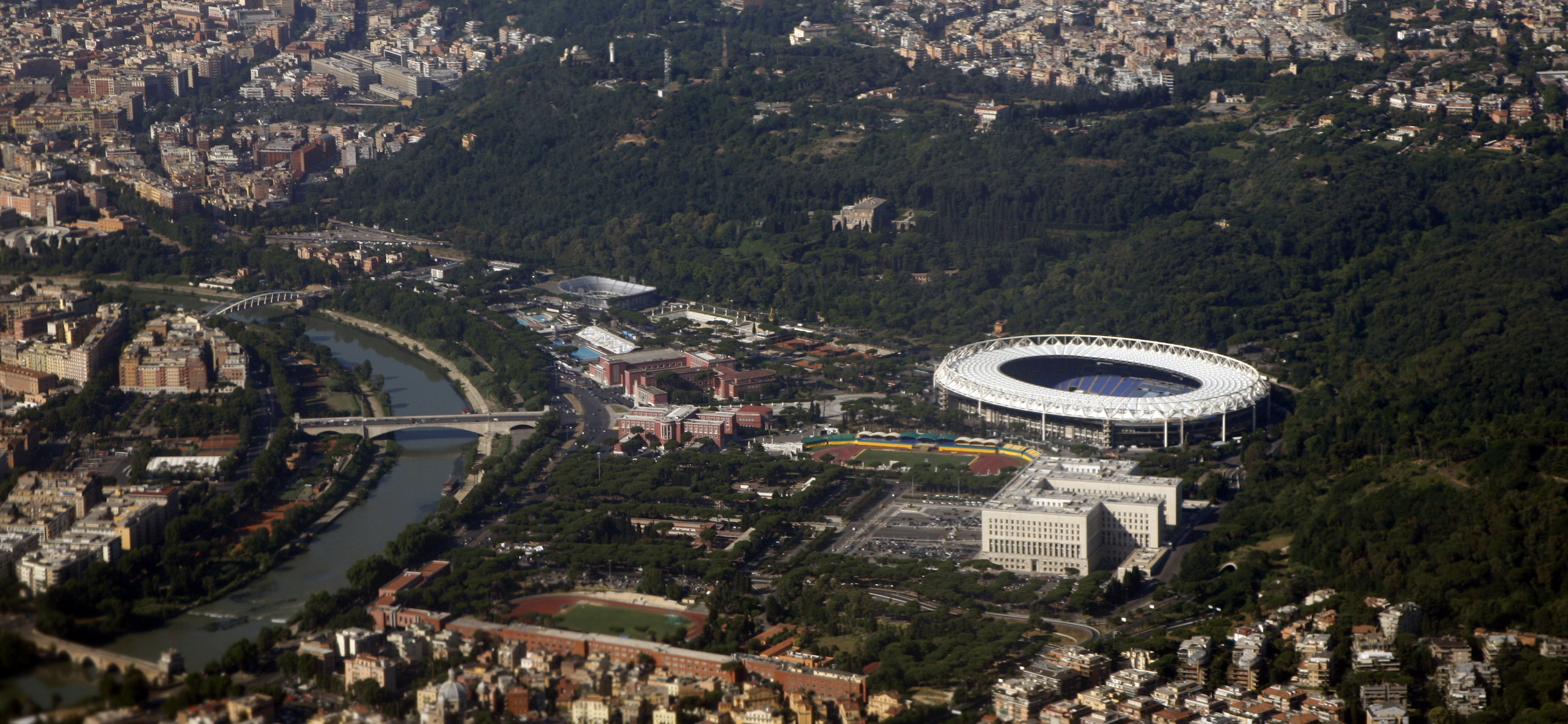 The Stadio Olimpico, the largest stadium in Italy. Just this side of it, Palazzo della Farnesia, home of the Italian Ministry of Foreign Affairs.